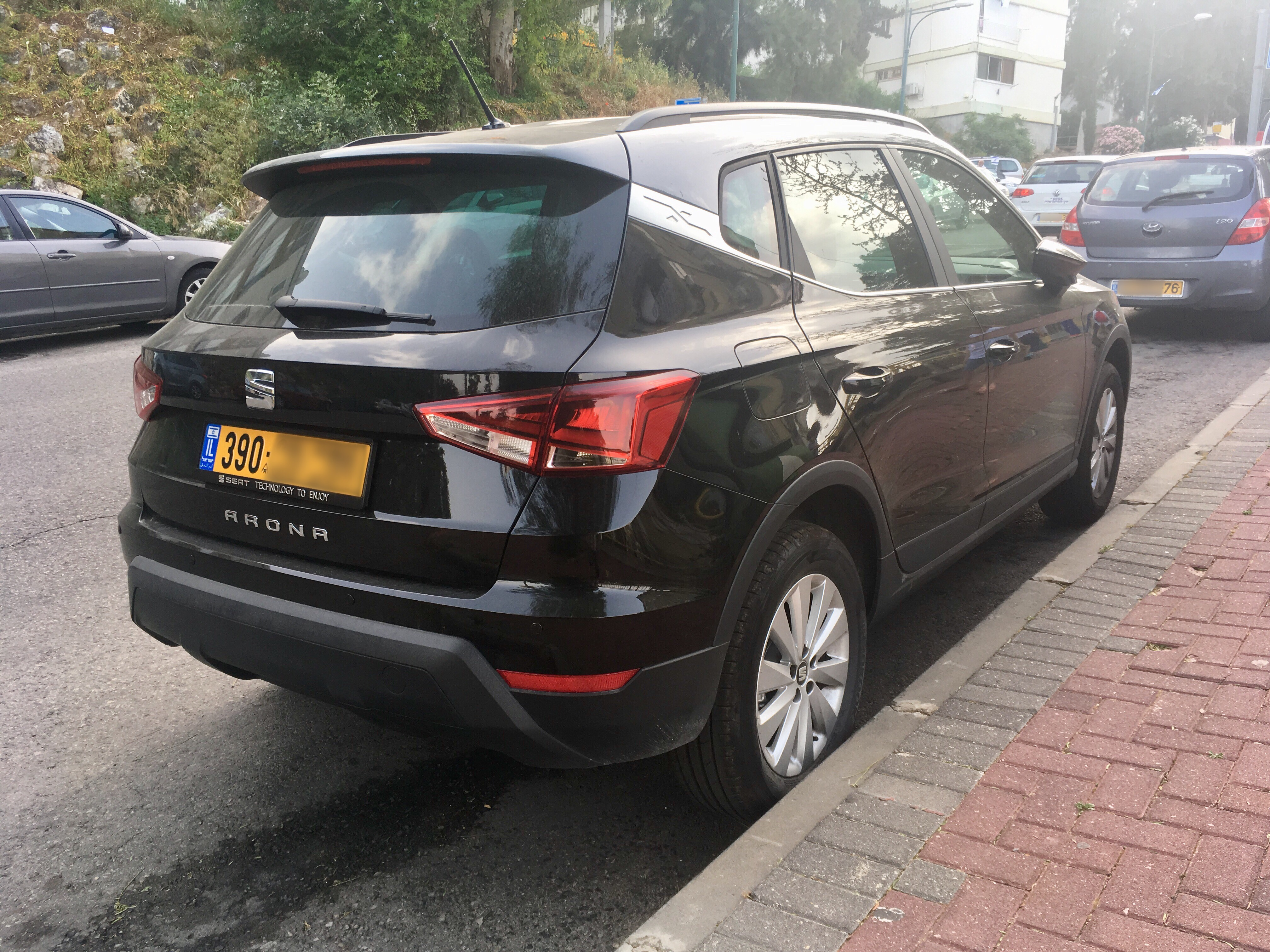 Seat Arona in Nesher, Israel